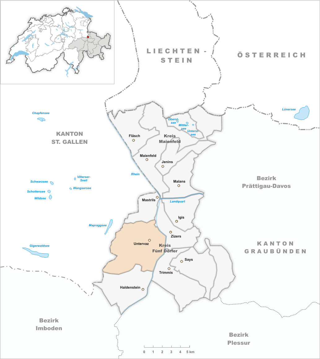 Municipality Untervaz